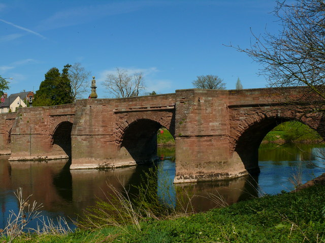 River Wye River Wye flowing under the Wilton Bridge